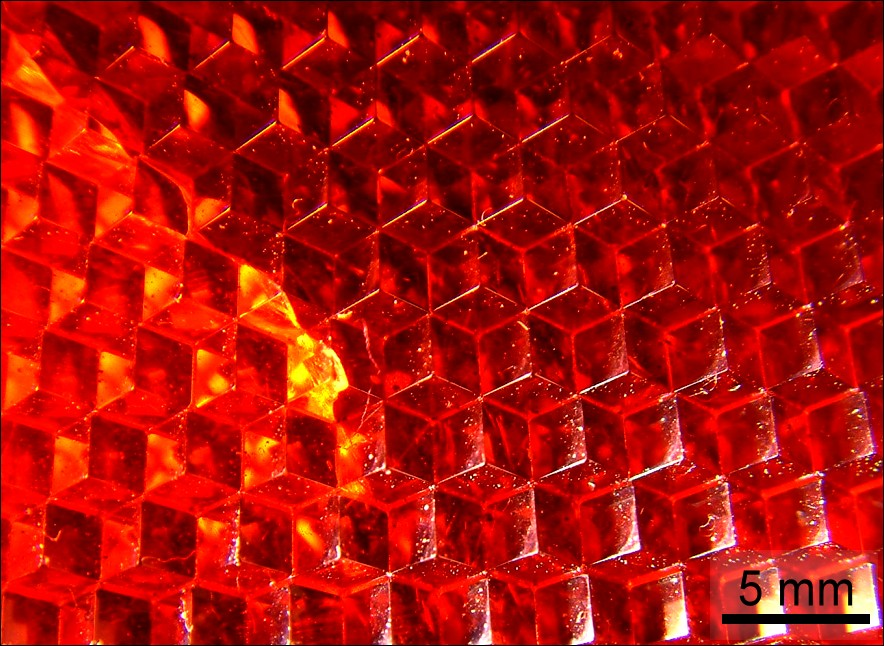 Rear side of prism reflector (which is called Katzenauge in German).